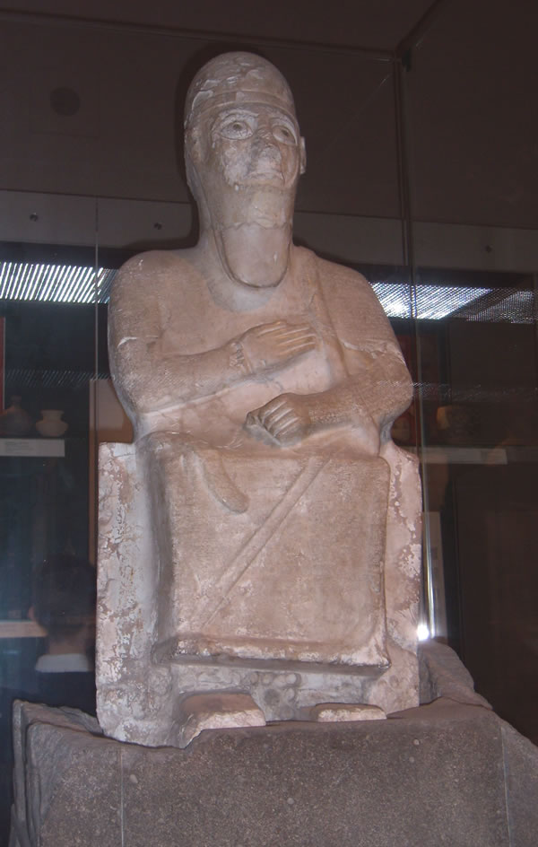 Statue of Idrimi, king of Alalakh